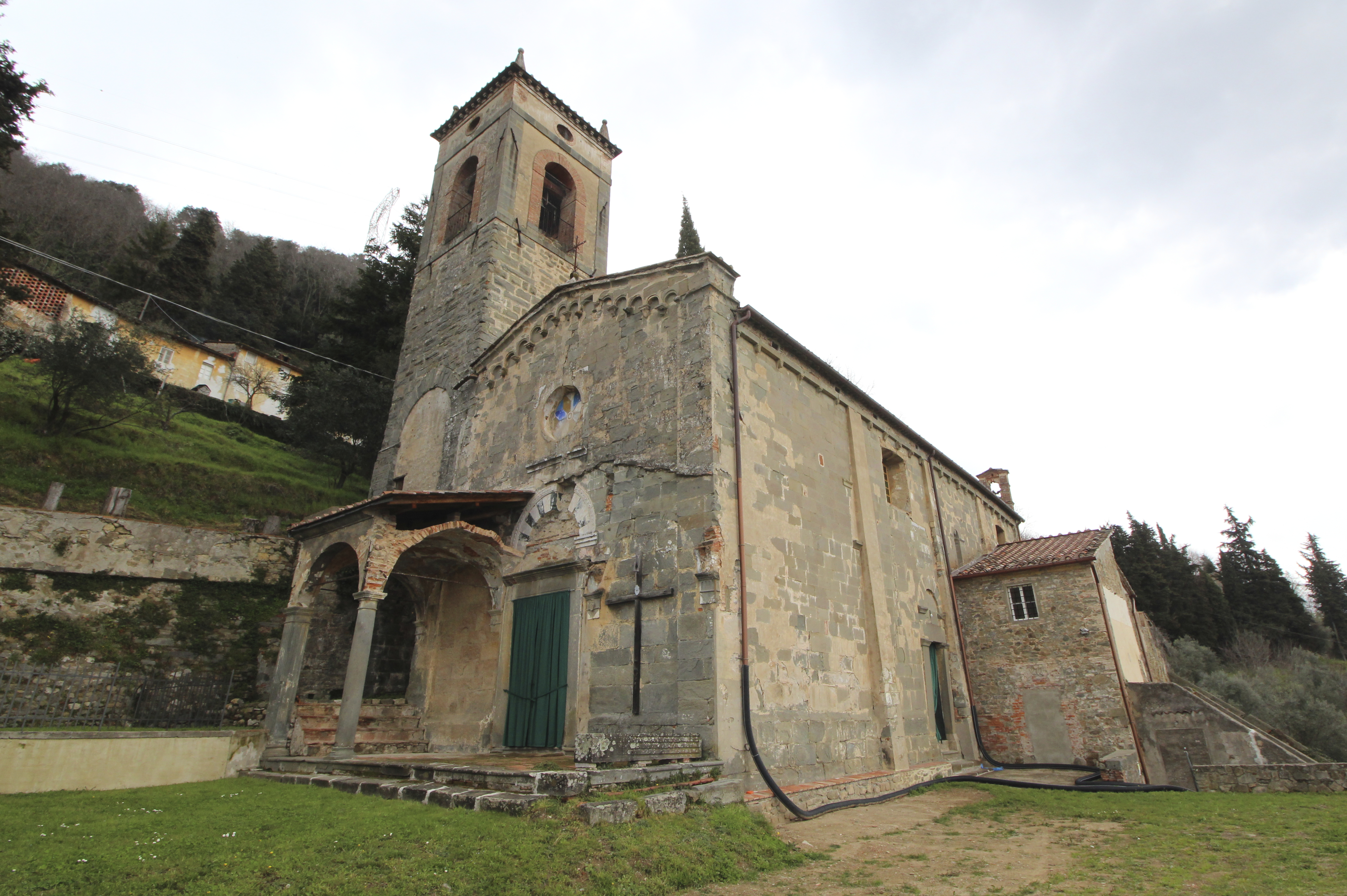 Church San Pietro, Marcigliano, hamlet of Capannori, Province of Lucca, Tuscany, Italy